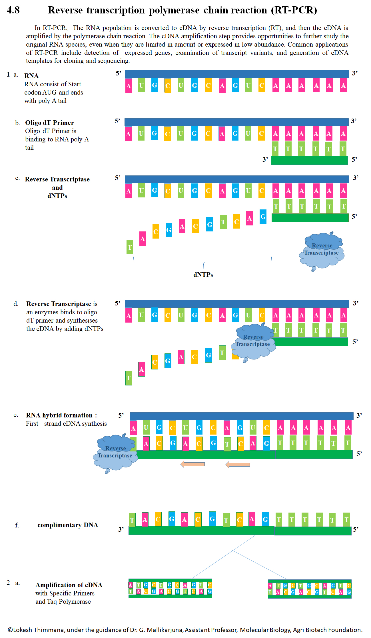 Reverse Transcription - PCR cDNA Synthesis from mRNA by using M-MuLV reverse transcriptase and cDNA Amplification with specific primers by using Taq Polymerase